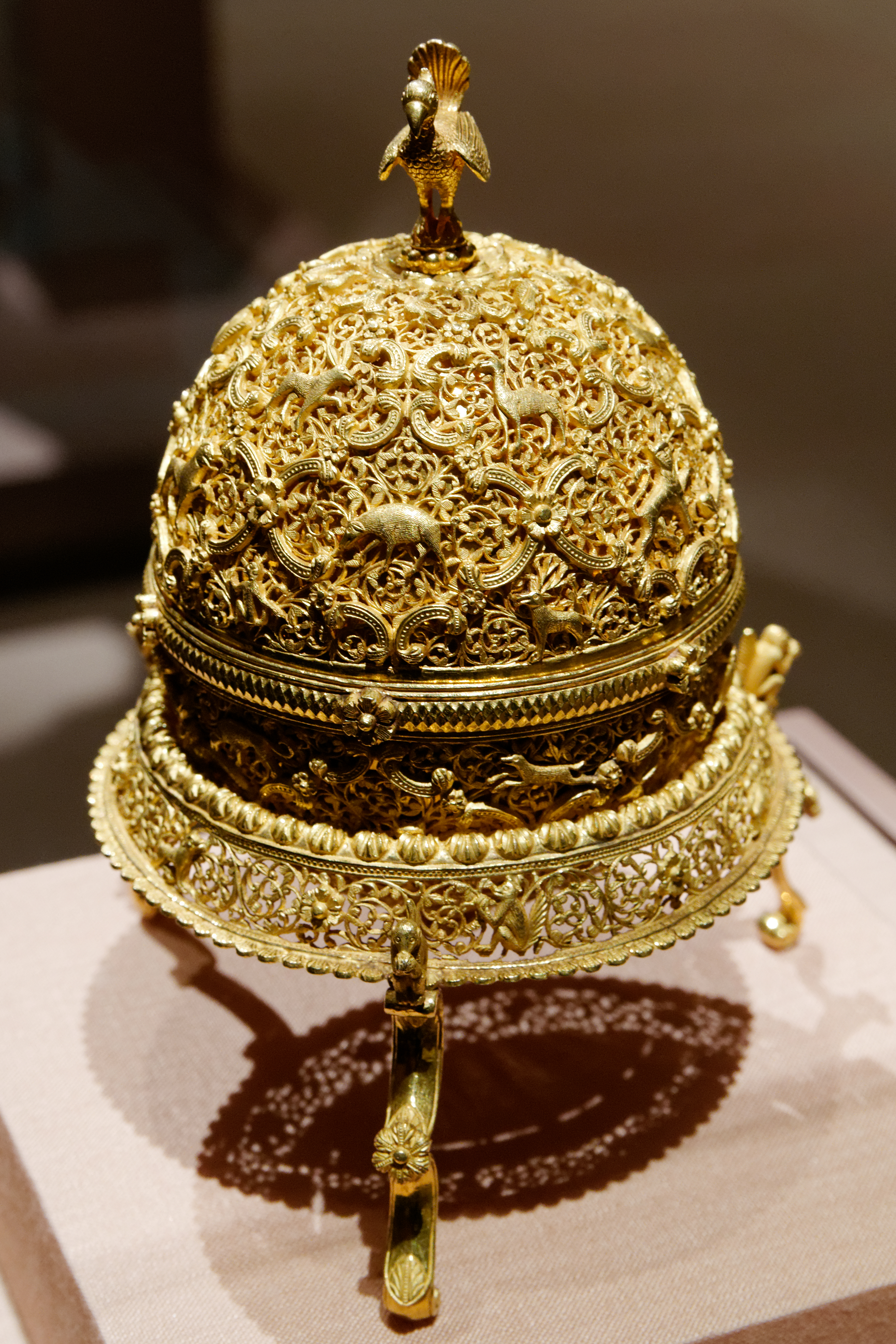 Goa stone and container.